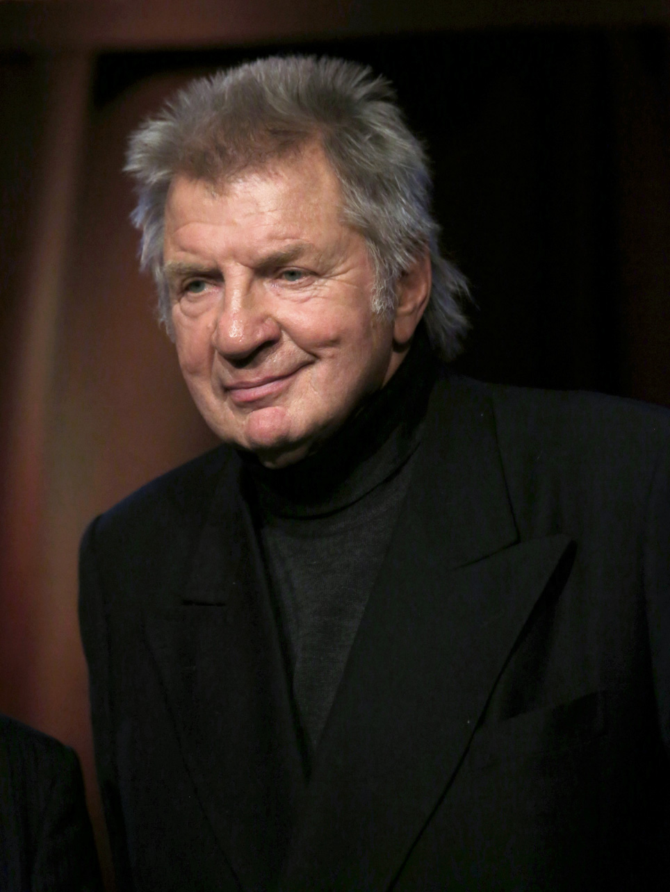 Austrian Cabaret Award 2012 (Porgy & Bess, Vienna).